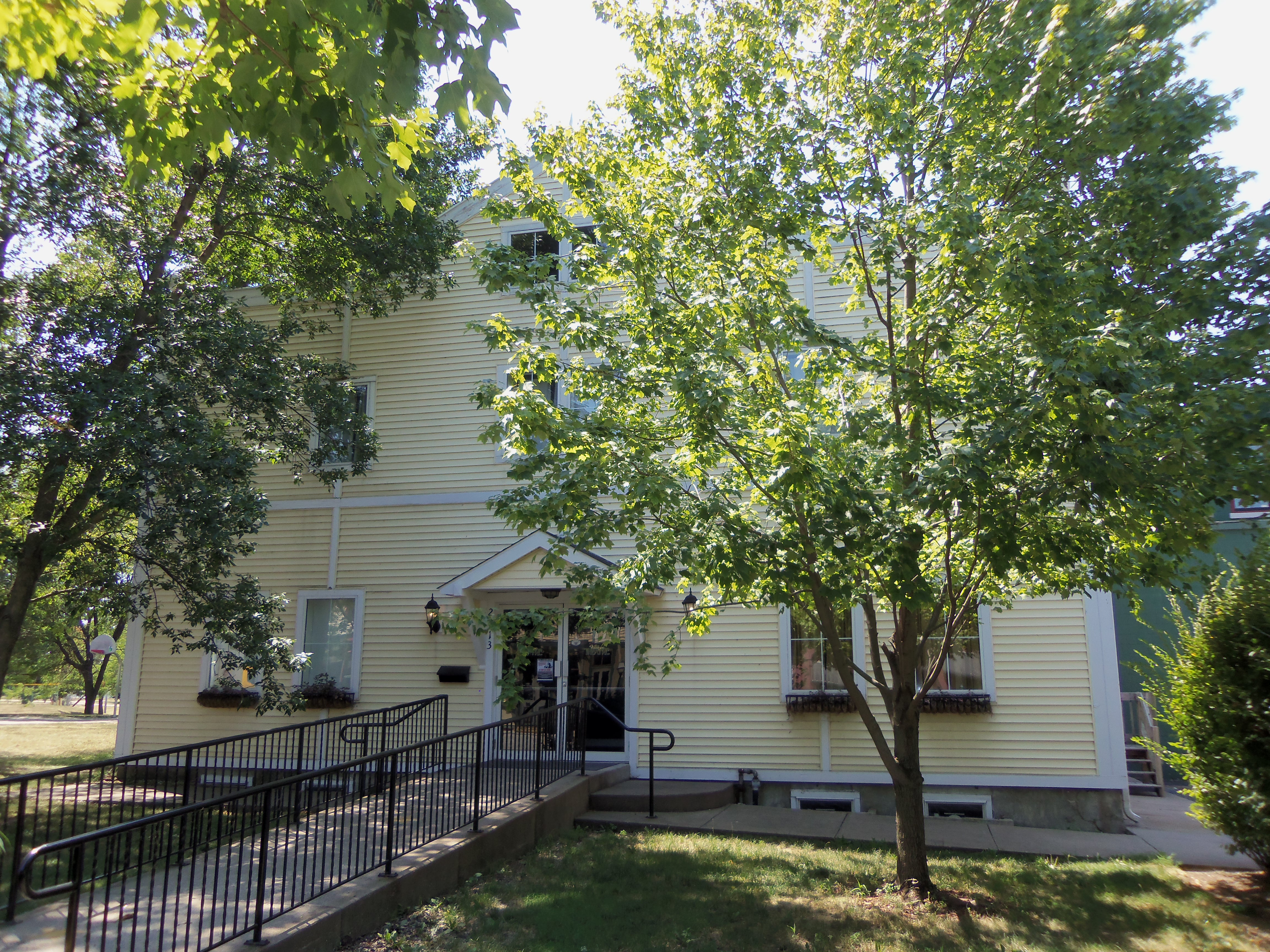 East Turner Hall in the Village of East Davenport, Davenport, Iowa. The building is now the Village Theatre.